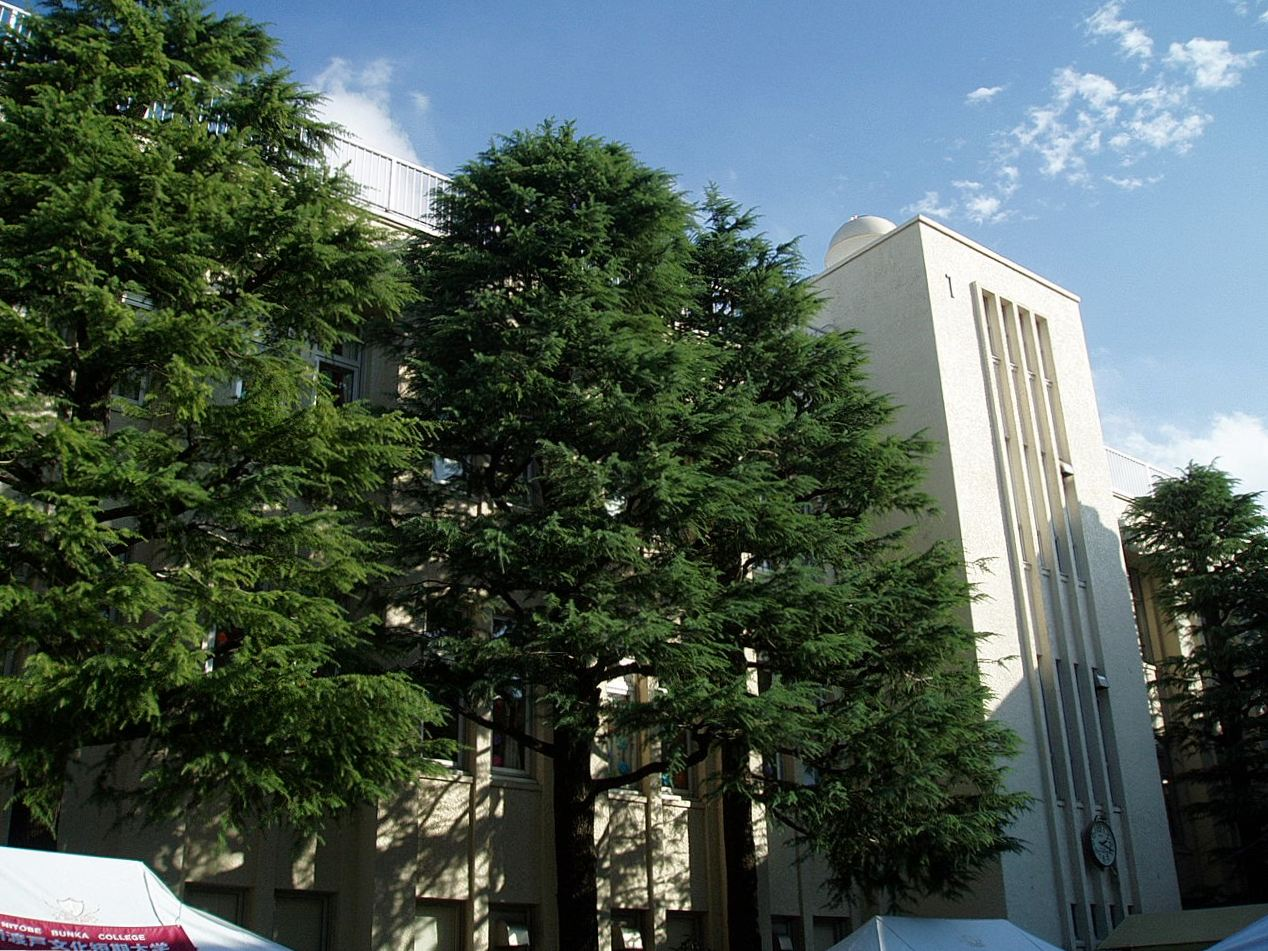 Building #1 (Nitobe Memorial Building, built in 1937), Nitobe Bunka College, located in Nakano-ku, Tokyo, Japan.